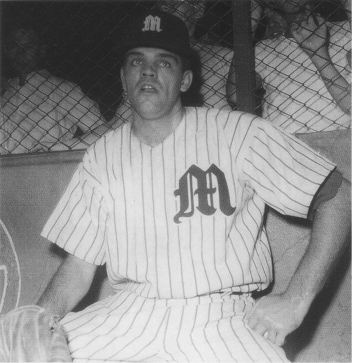 Leo Kiely (American pitcher. taken in 1953)